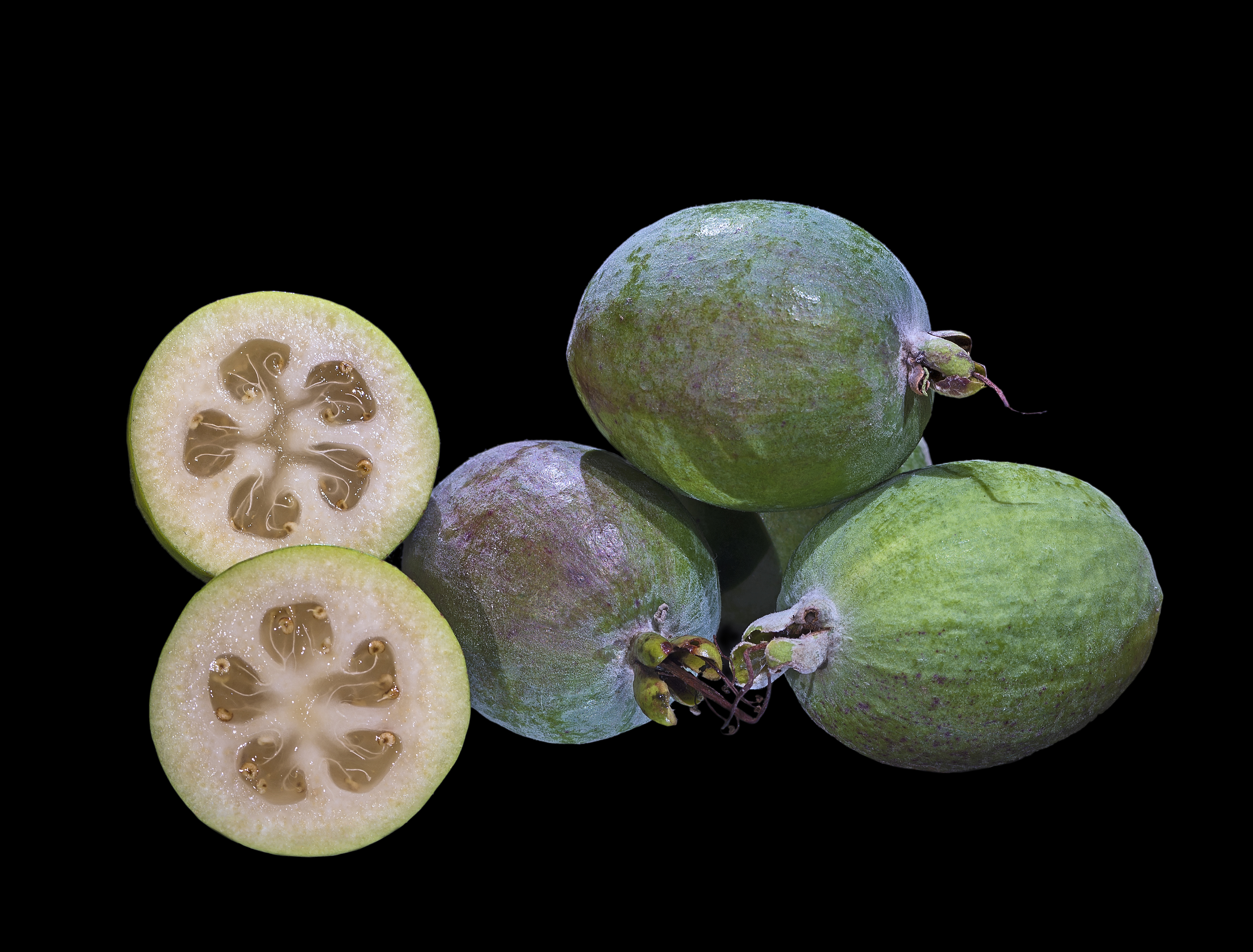 pineapple guava (Acca sellowiana syn : feijoa sellowiana, Myrtaceae) fruits. Locality :Fronton, Haute-Garonne France.